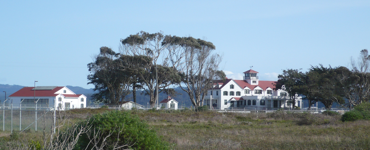 The Humboldt Bay Life-Saving Station in Samoa, California, was listed on the National Register of Historic Places, October 30, 1979.